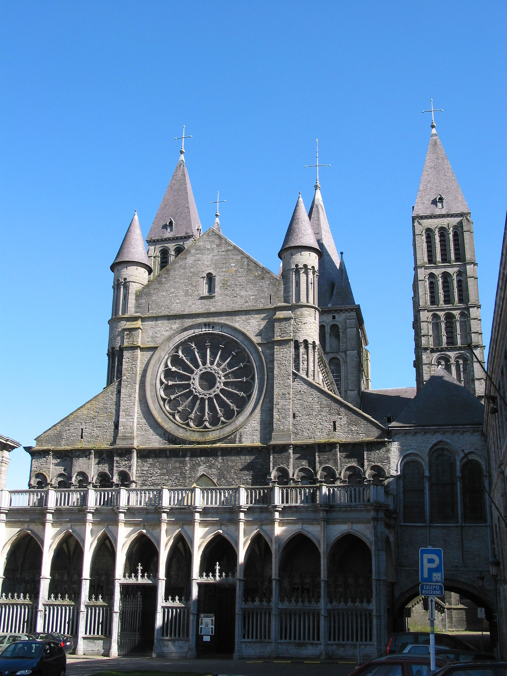 Tournai (Belgium), western porch of the Notre-Dame (Our Lady) cathedral (XIIth century).